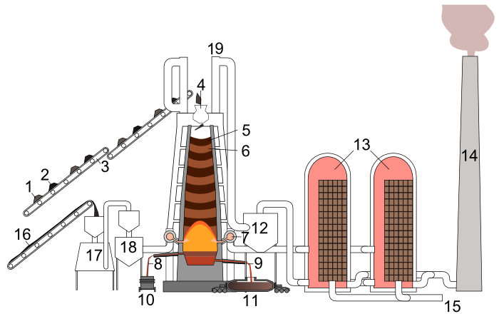 Blast furnace 1: Iron ore + Calcareous sinter 2: coke 3: conveyor belt 4: feeding opening, with a valve that prevents direct contact with the internal parts of the furnace 5: Layer of coke 6: Layers of sinter, iron oxide pellets, ore, 7: Hot air (around 1200°C) 8: Slag 9: Liquid pig iron 10: Mixers 11: Tap for pig iron 12: Dust cyclon for removing dust from exhaust gasses before burning them in 13 13: air heater 14: Smoke outlet (can be redirected to carbon capture & storage (CCS) tank) 15: feed air for Cowper air heaters 16: Powdered coal 17: cokes oven 18: cokes bin 19: pipes for blast furnace gas This technology image could be recreated using vector graphics as an SVG file. This has several advantages; see Commons:Media for cleanup for more information. If an SVG form of this image is available, please upload it and afterwards replace this template with vector version available|new image name .